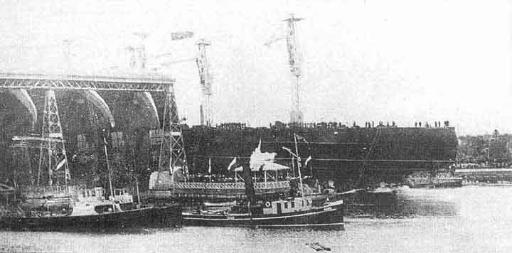 Imperial Russian battleship Imperator Nikolai I.